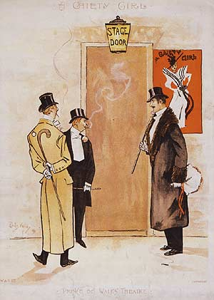 Drawing of Stage Door Johnnies